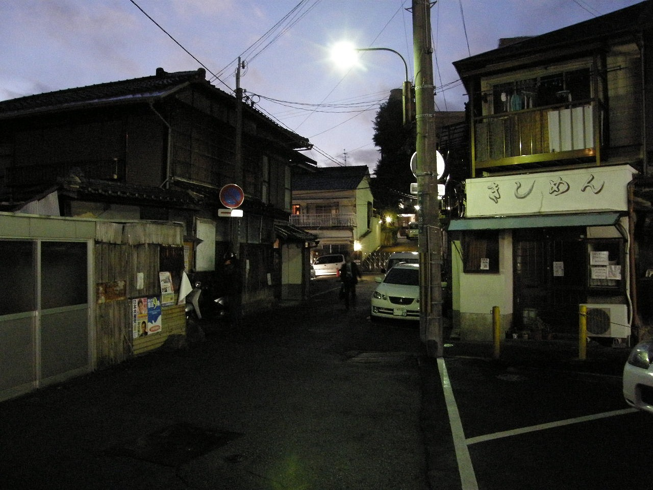 minatoyama-onsen 湊山温泉前